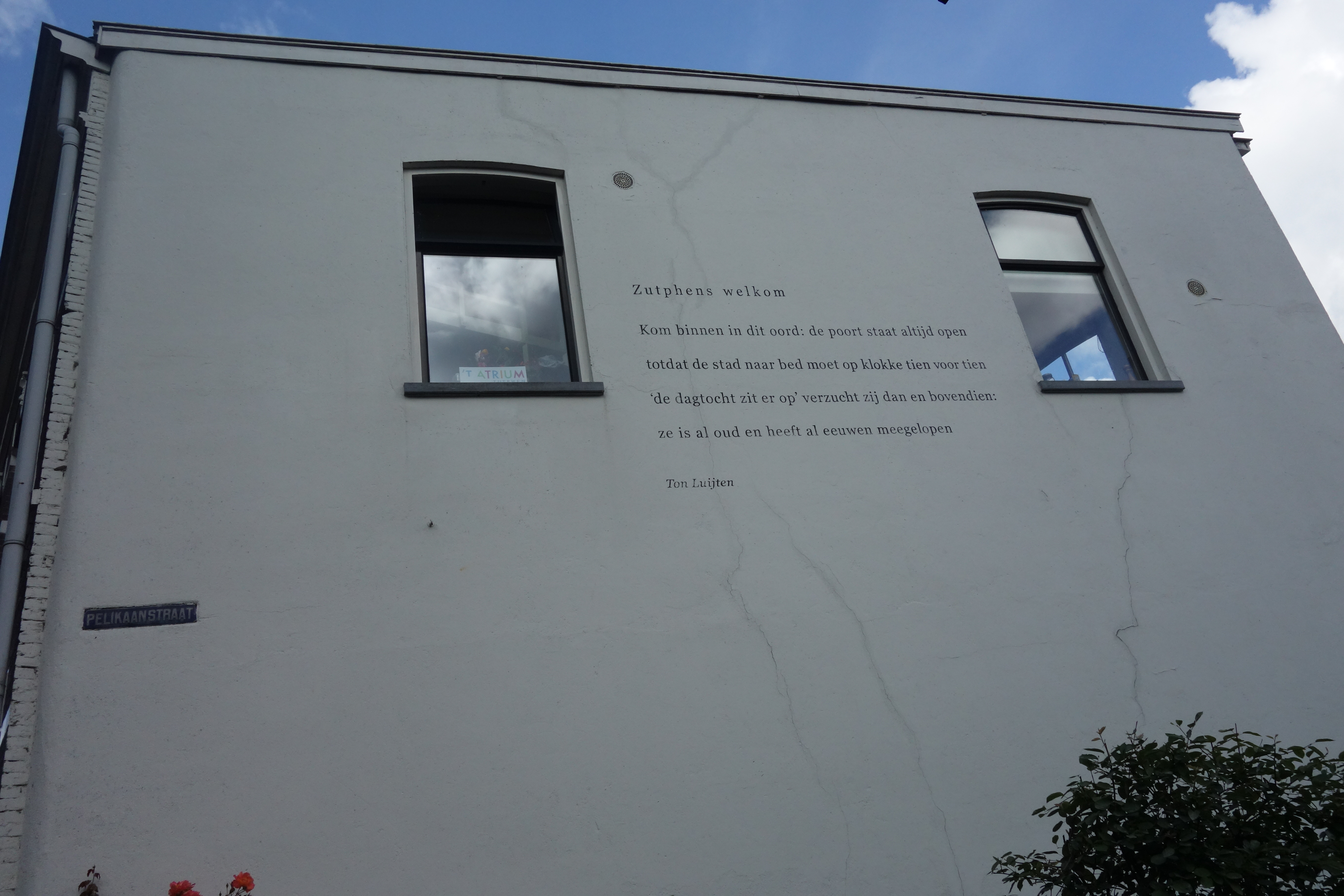 Wall poem by Ton Luijten in Zutphen, 2020